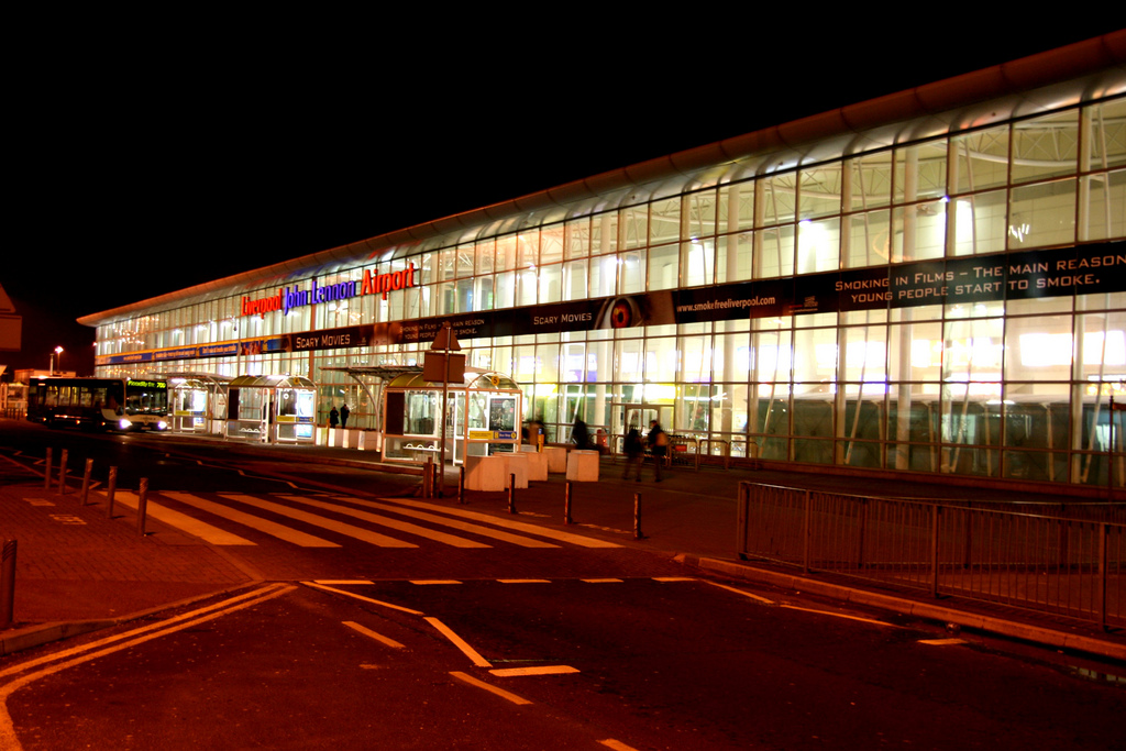 Liverpool John Lennon Airport